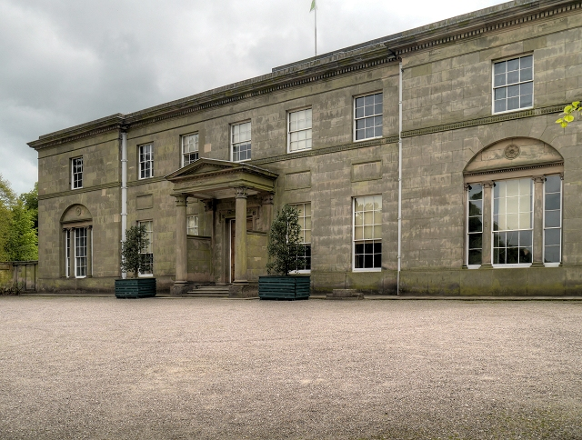 Northern Elevation, Tatton Hall. Tatton Hall is a country house in Tatton Park near Knutsford.